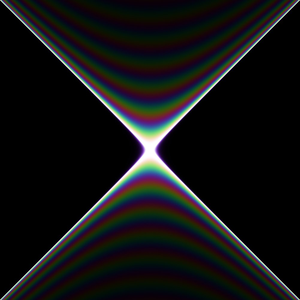 Feynman propagator, m = 20, left/right/top/bottom bounds of image are at = ±2.